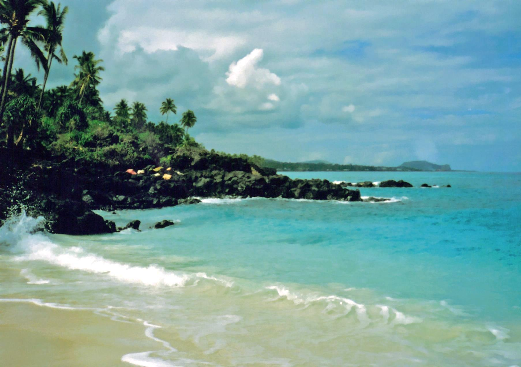 Comores in the Indian Ocean